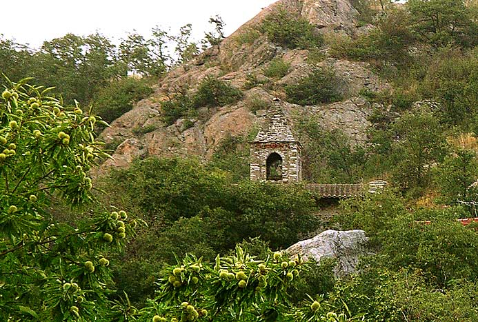 Bell tower of the charterhouse of Banda, Piemonte, Italy